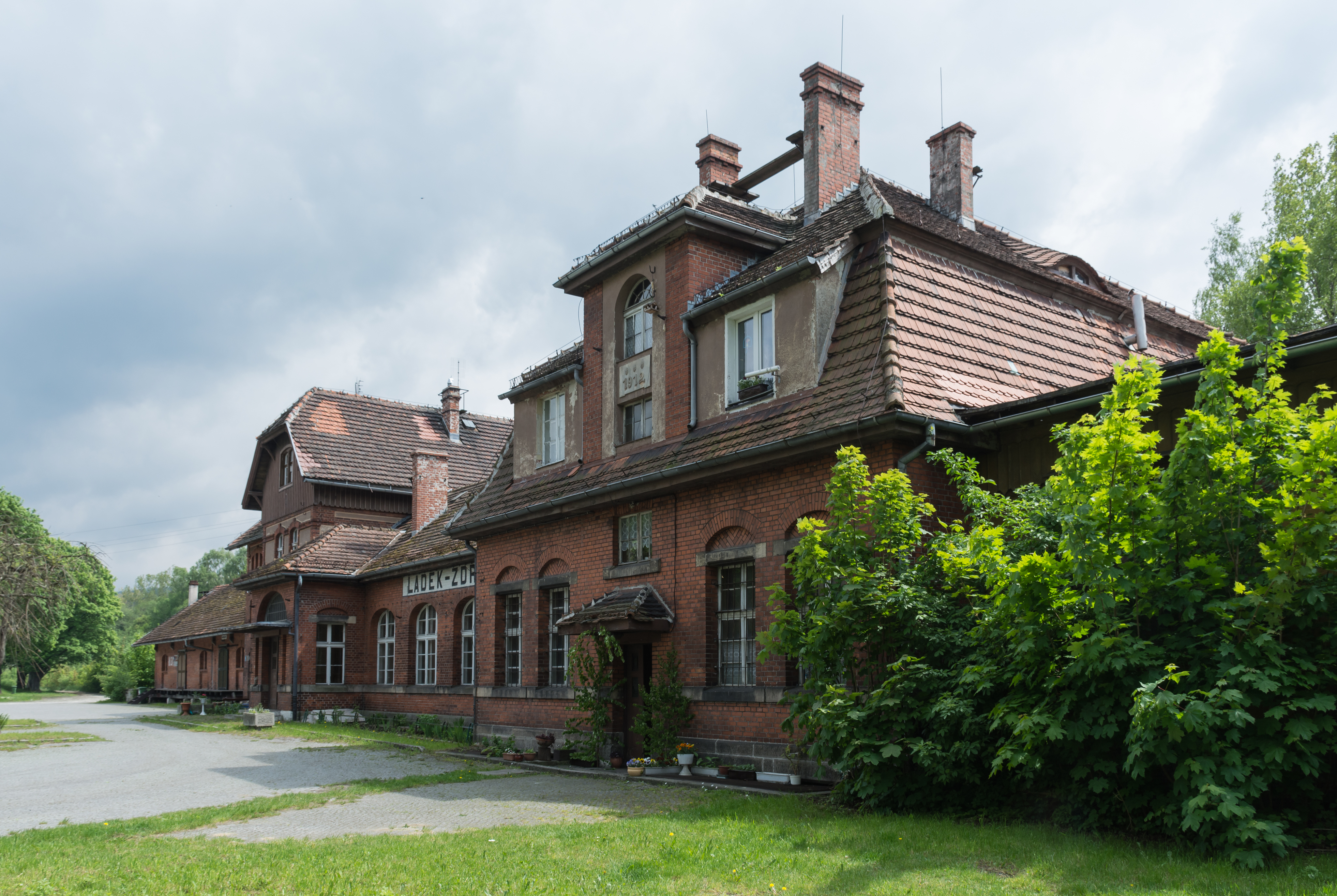 Train station in Lądek-Zdrój